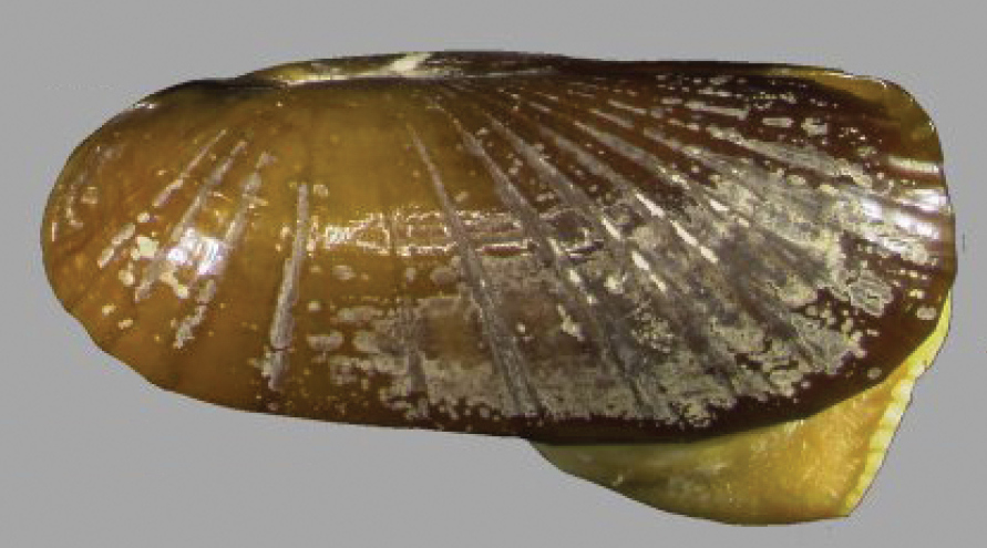 Solemya elarraichensis (Bivalvia: Protobranchia: Solemyoida) from the Kidd Mud Volcano (Gulf of Cadiz, eastern Atlantic Ocean). Lateral view of the holotype specimen.